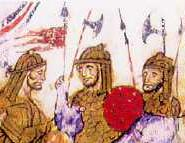 varangian guard